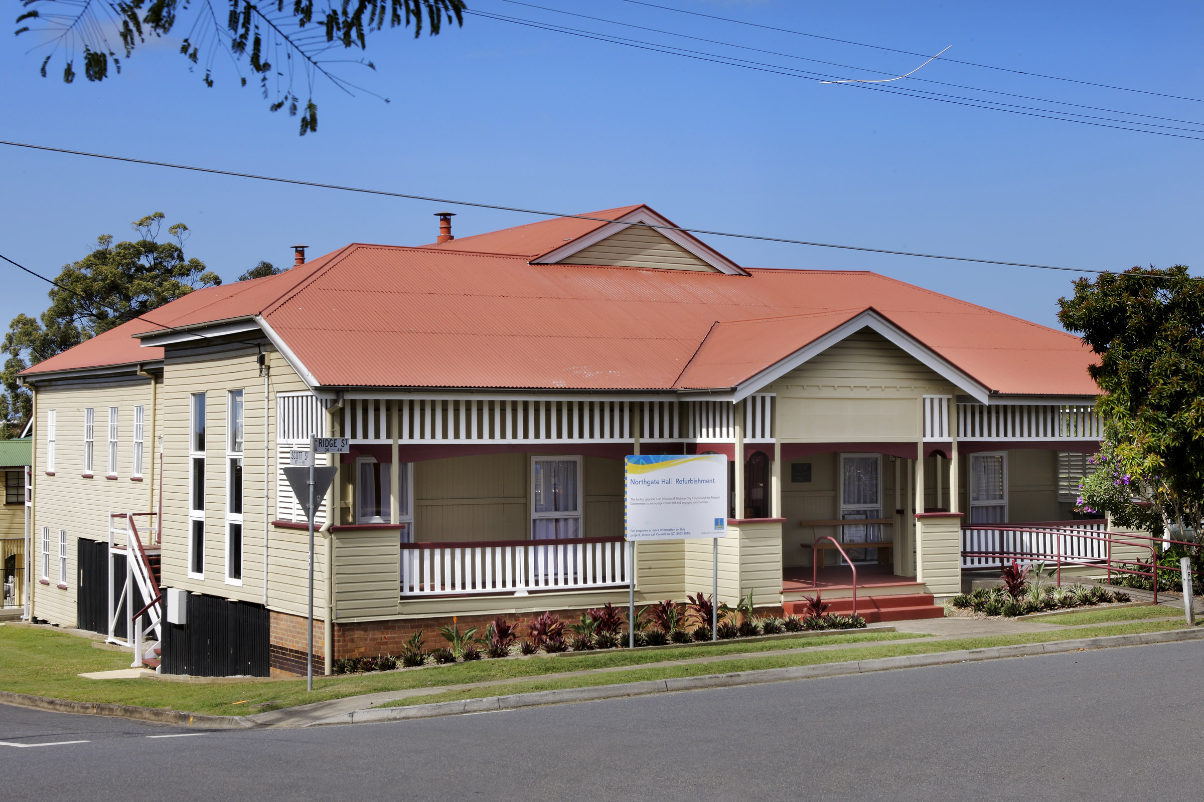 Northgate Hall is a heritage listed, old memorial style hall.